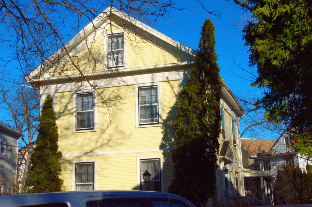 A photograph of the historic Thomas Cook House in Somerville, Massachusetts.